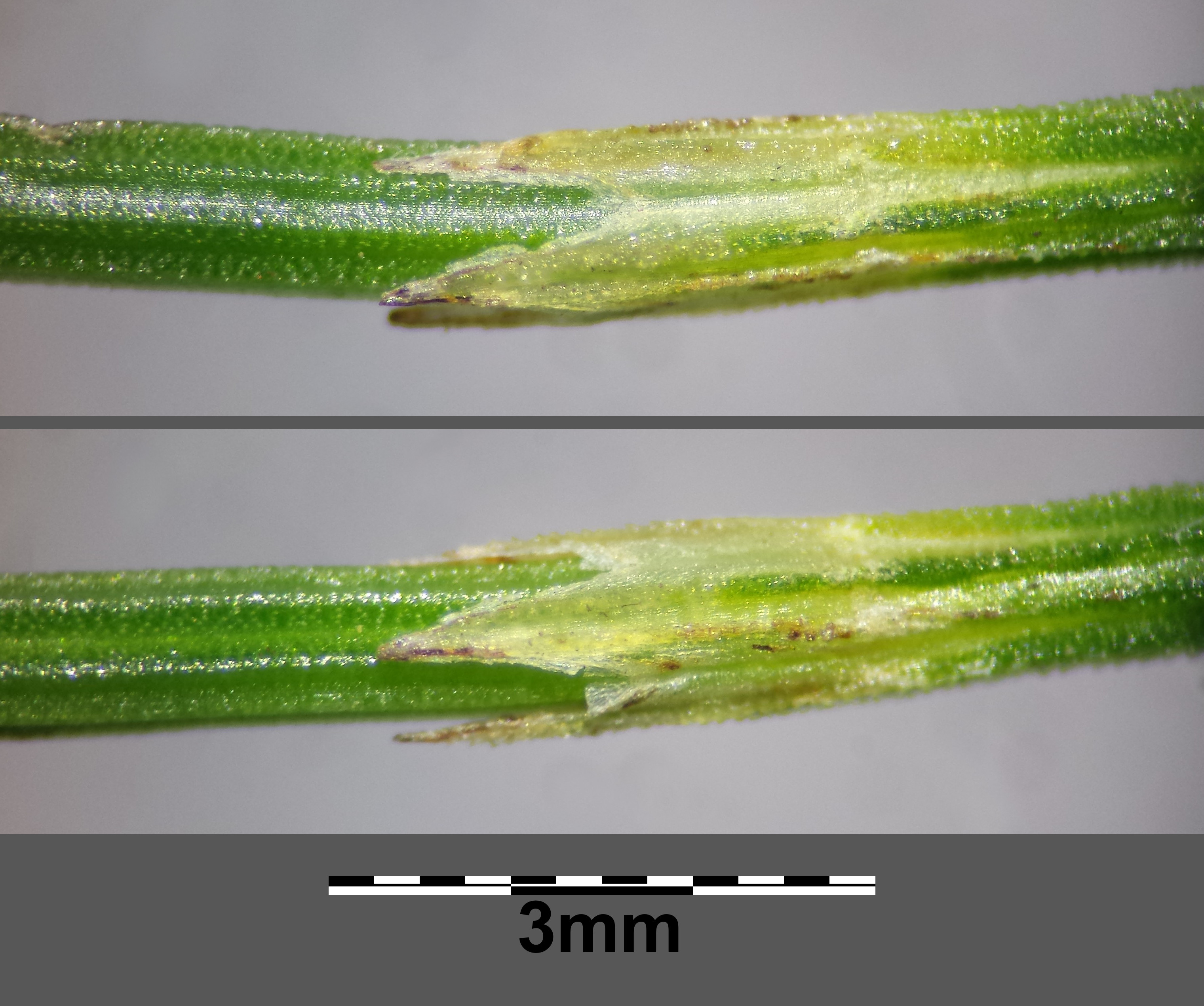 Branch with sheath Taxonym: Equisetum telmateia (subsp. telmateia) ss Fischer et al. EfÖLS 2008 ISBN 978-3-85474-187-9 Location: Kreuttal, district Mistelbach, Lower Austria - ca. 230 m a.s.l. Habitat: wet meadows